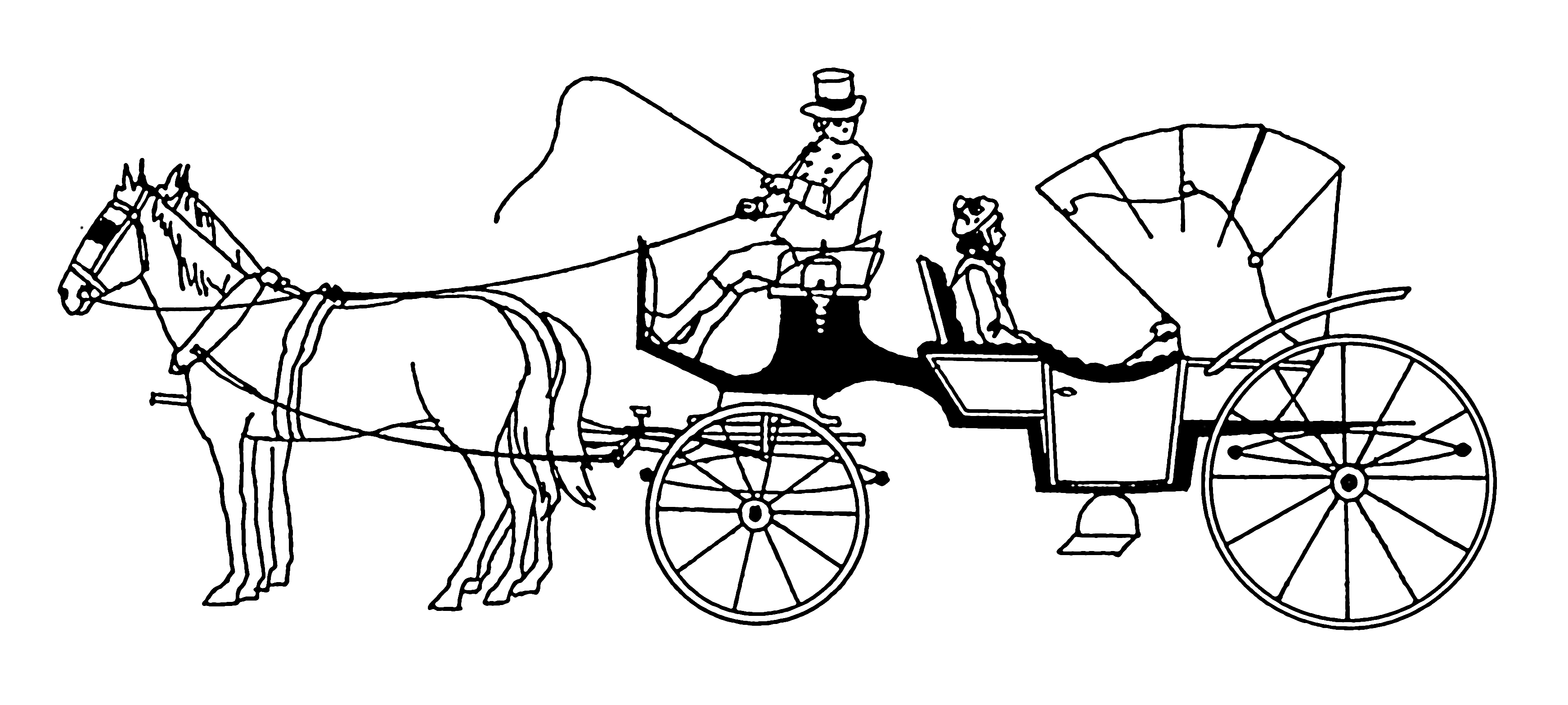 Line art drawing of a barouche.